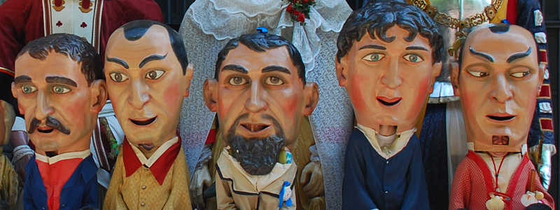 cabezudos pamplona